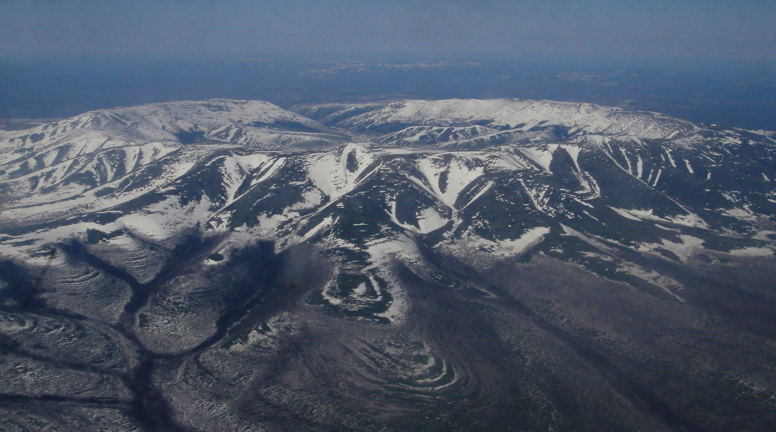 View from helicopter to the Kondyor Massif